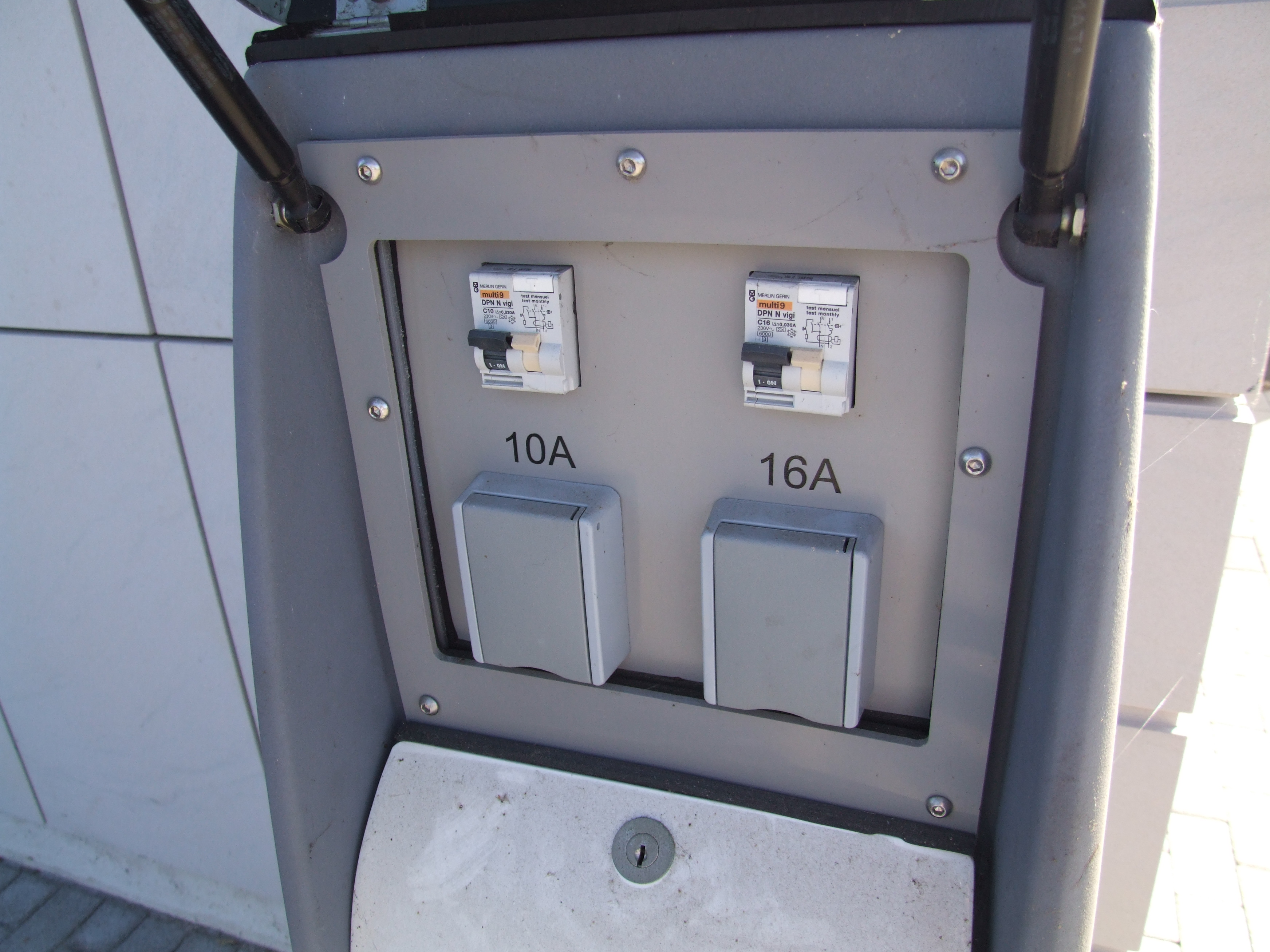 Solar electric fuel station at Museum Autovision, Altlußheim